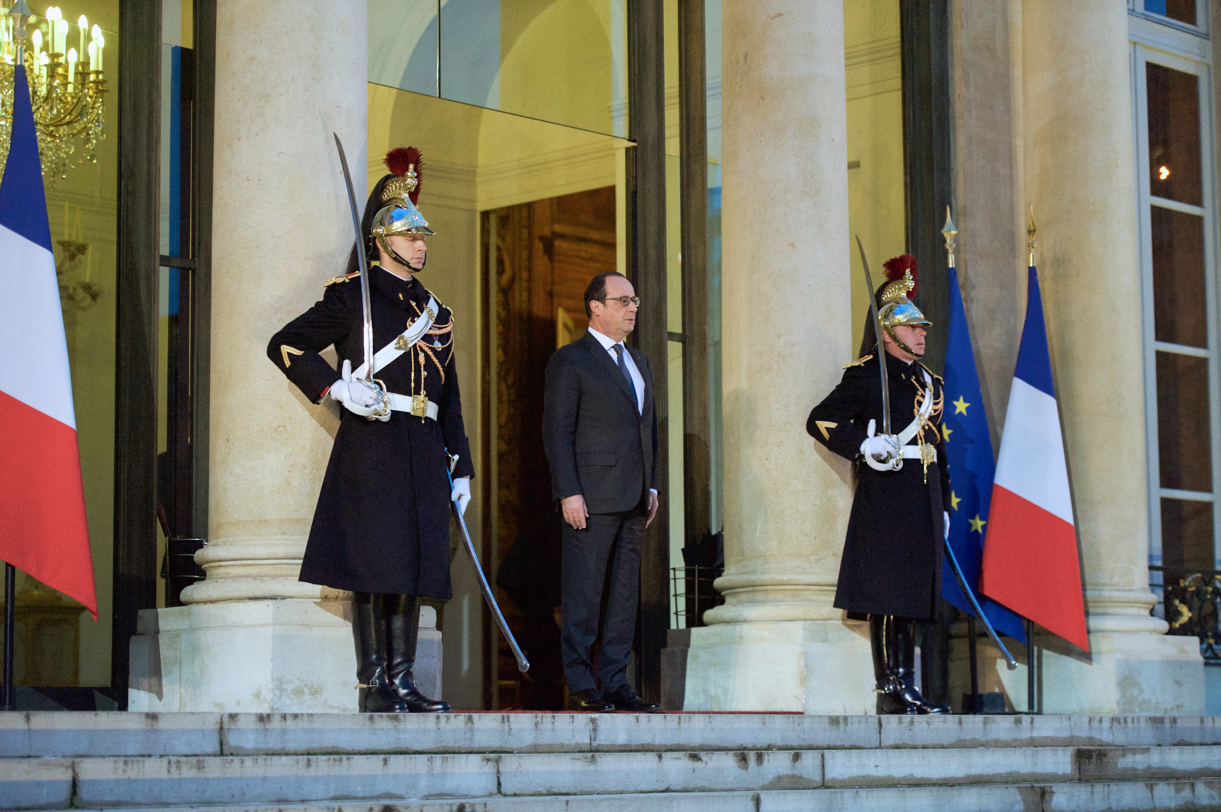 French President François Hollande prepares to welcome U.S. Secretary of State John Kerry to the Élysée Palace for a bilateral meeting in Paris, France, on January 16, 2015. The Secretary is visiting the French capital to pay homage to the victims of last week's shooting attacks in Paris and to reiterate the support of the United States for the French people and our ongoing commitment to providing any assistance needed.